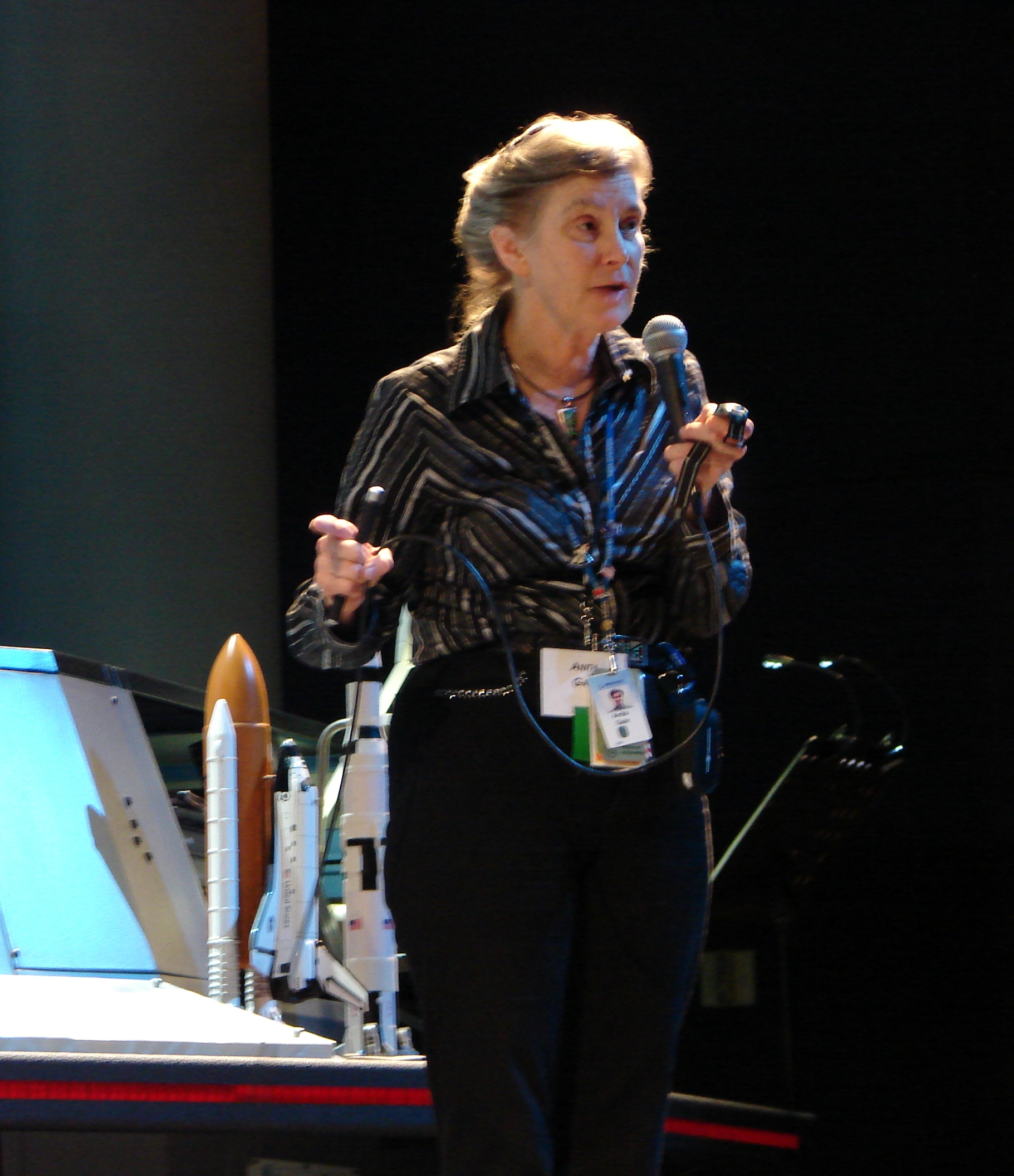 A photograph depicting Anita Gale, the founder of the International Space Settlement Design Competition and worker at NASA.